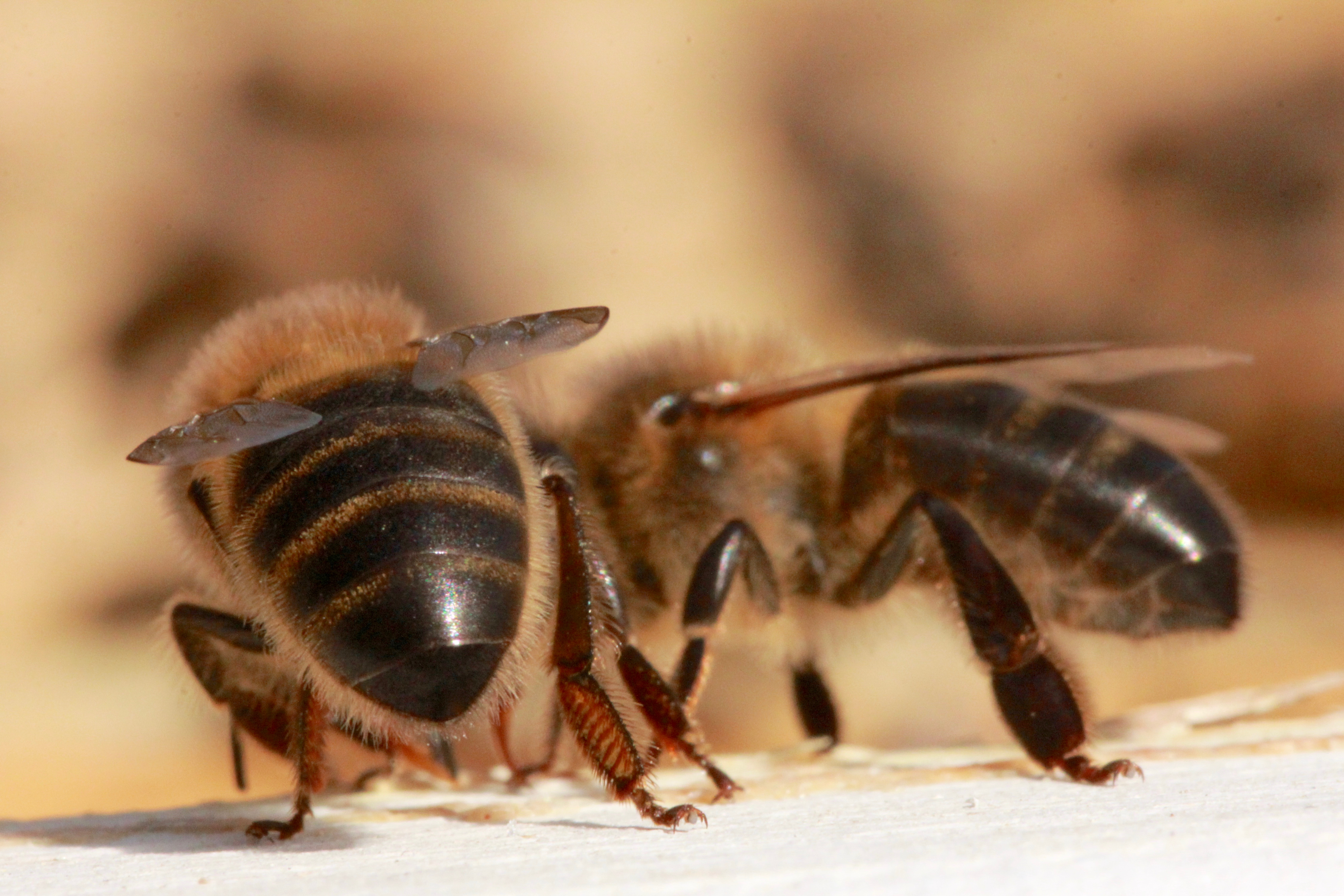 European dark bees (Apis mellifera mellifera) in the hive. Clearly visible are the wide, black abdomen with the narrow felt stripes and the blunt end.